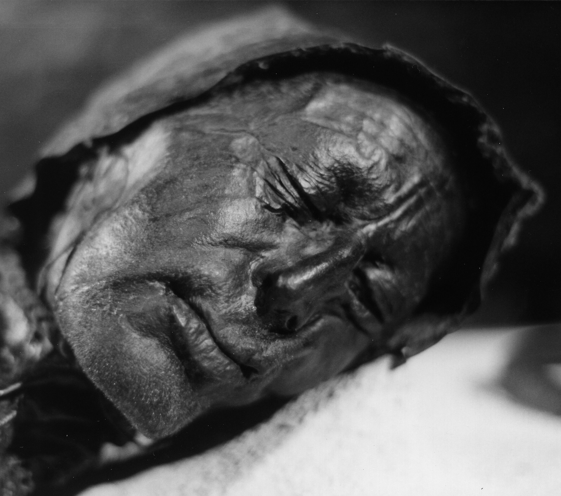 Head of bog body Tollund Man. Found on 1950-05-06 near Tollund, Silkebjorg, Denmark and C14 dated to approximately 375-210 BCE.